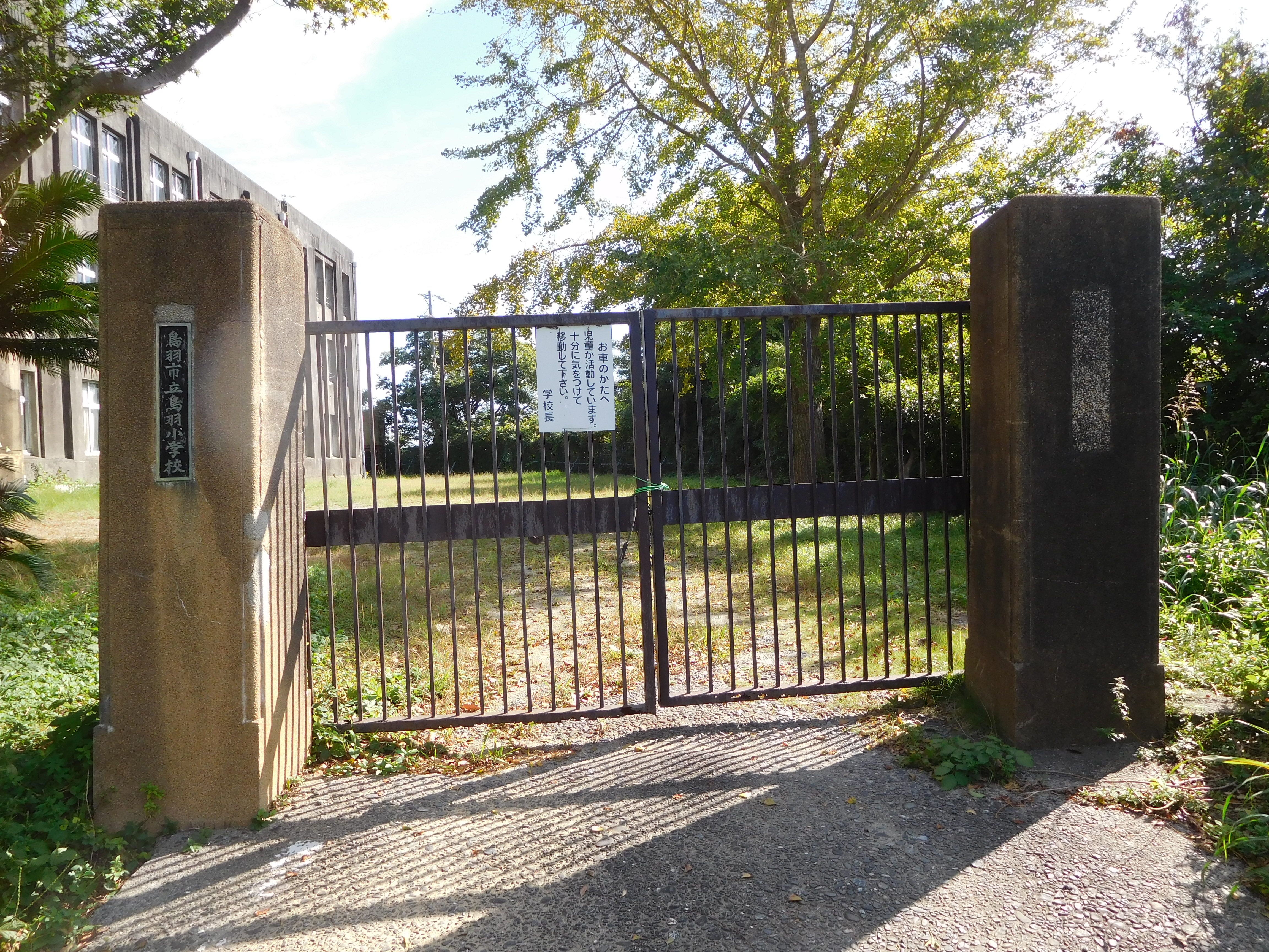 This is the school gate of Former Toba Elementary School in Toba, Mie, Japan.